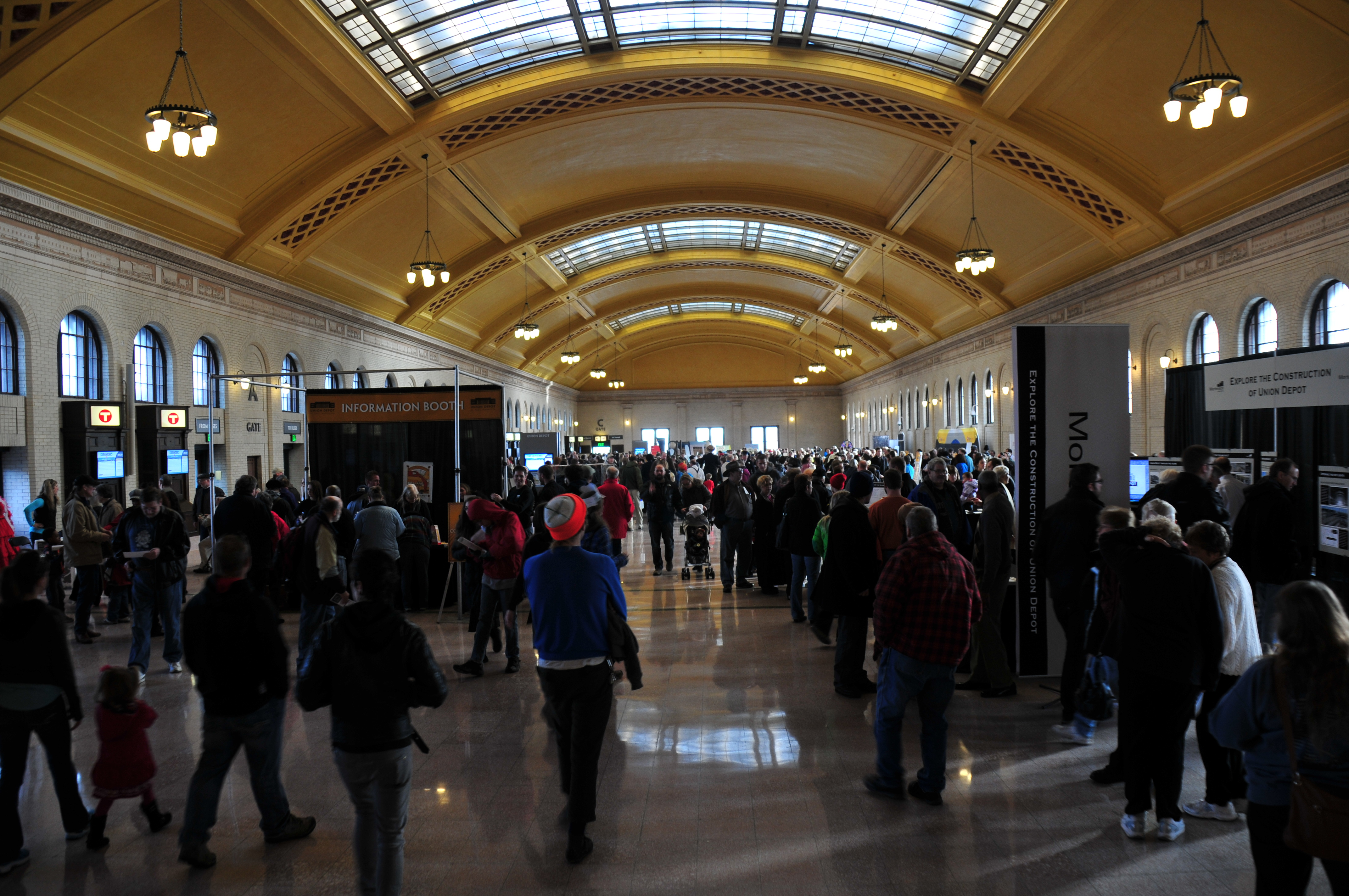 The waiting room of the St. Paul Union Depot as it appeared on the day of its grand re-opening after the 2012 restoration.